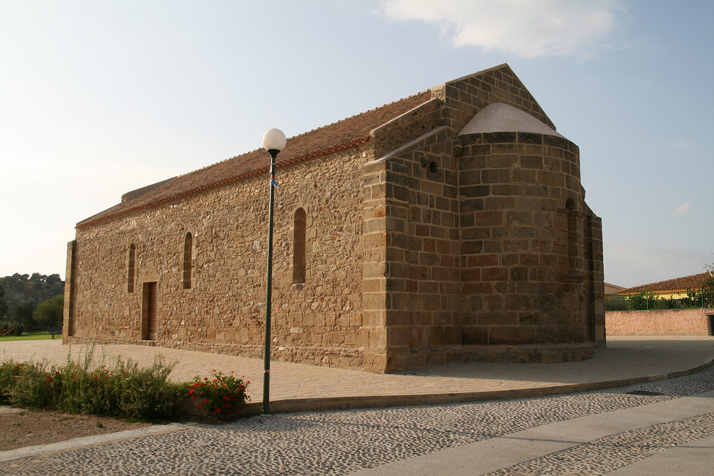 Viddalba (Italy - Sassari), San Giovanni romanic church